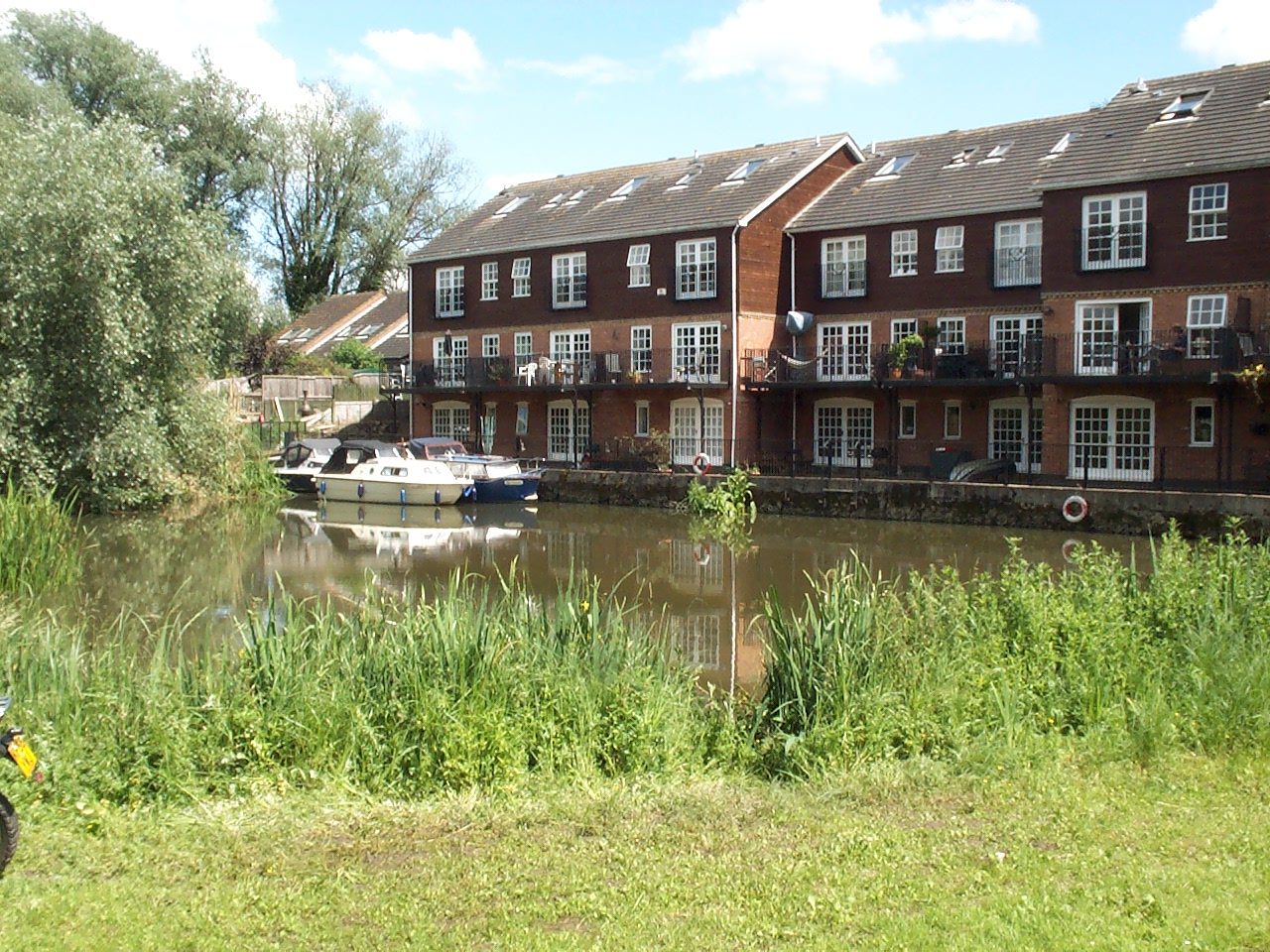 Small Marina and apartment block, off the river Great Ouse, on the boundary of Bedford and Kempston. The Marina is on the South side of the river next to the cycle/foot path, with its arched footbridge, between Queens Park and Kempston.